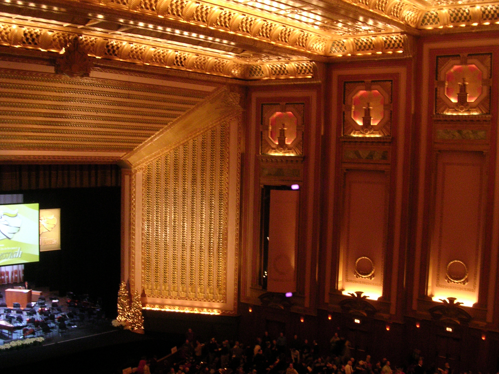 Lyric Opera of Chicago, interior view Original description: Lyric Opera, Do It Yourself Messiah